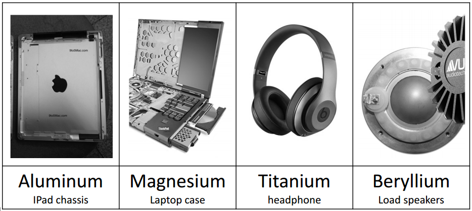 Light alloys in portable electronics